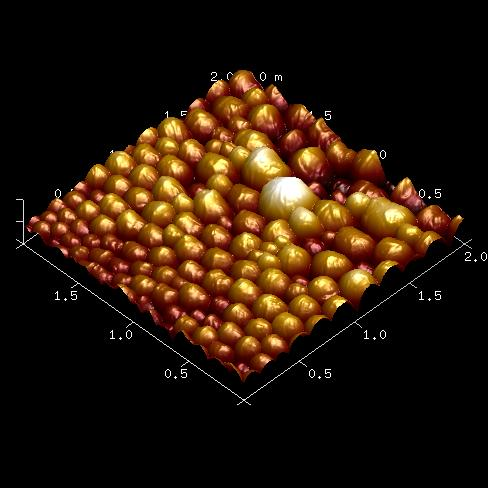 3D Topografic AFM image